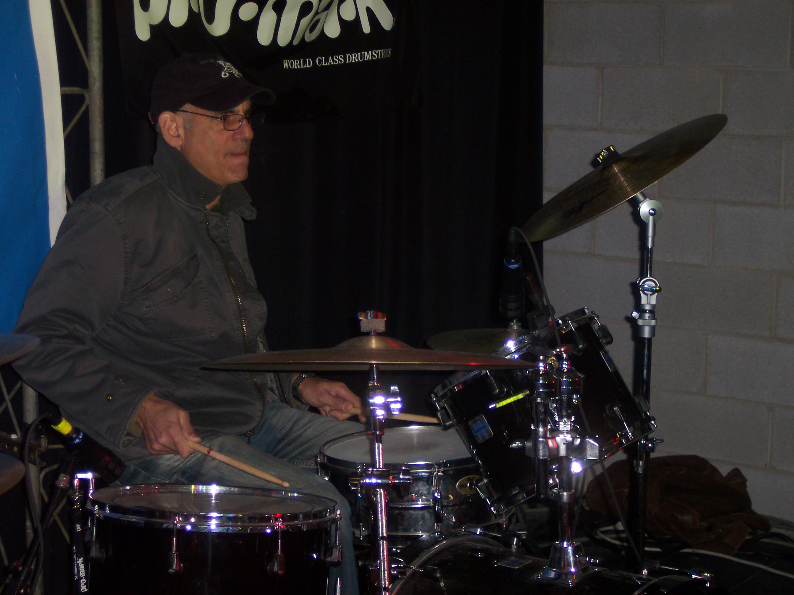 Former drummer for Billy Joel, Liberty DeVitto plays at a recent Camp Jam session in the Atlanta area. February 2007. Photo credit: Robert J. Nebel